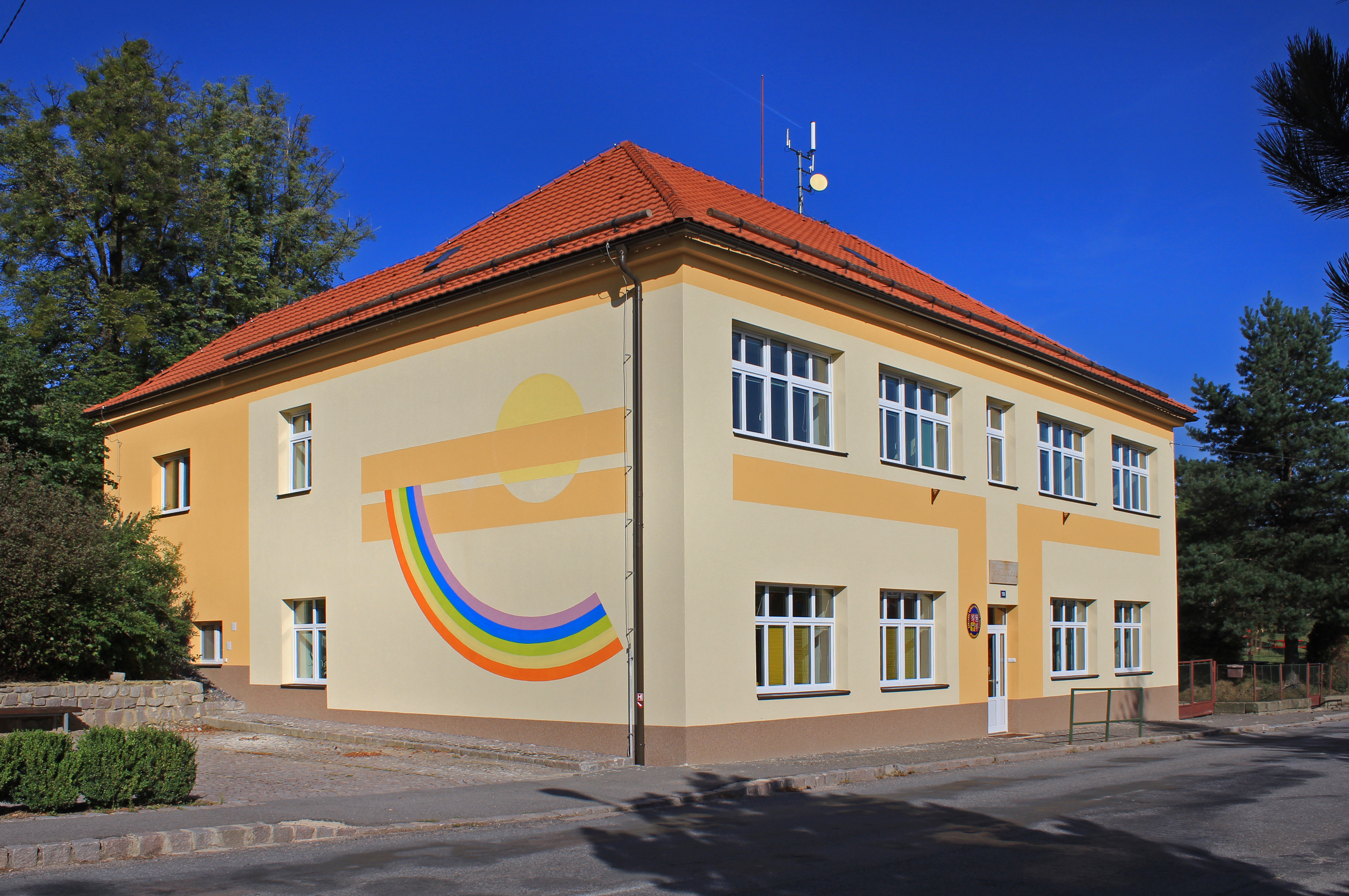 Elementary school in Budislav, Czech Republic.